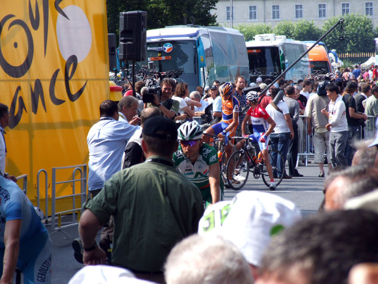 Picture taken by Stitchface in Tarbes.